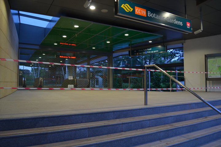 Botanic Gardens Entrance